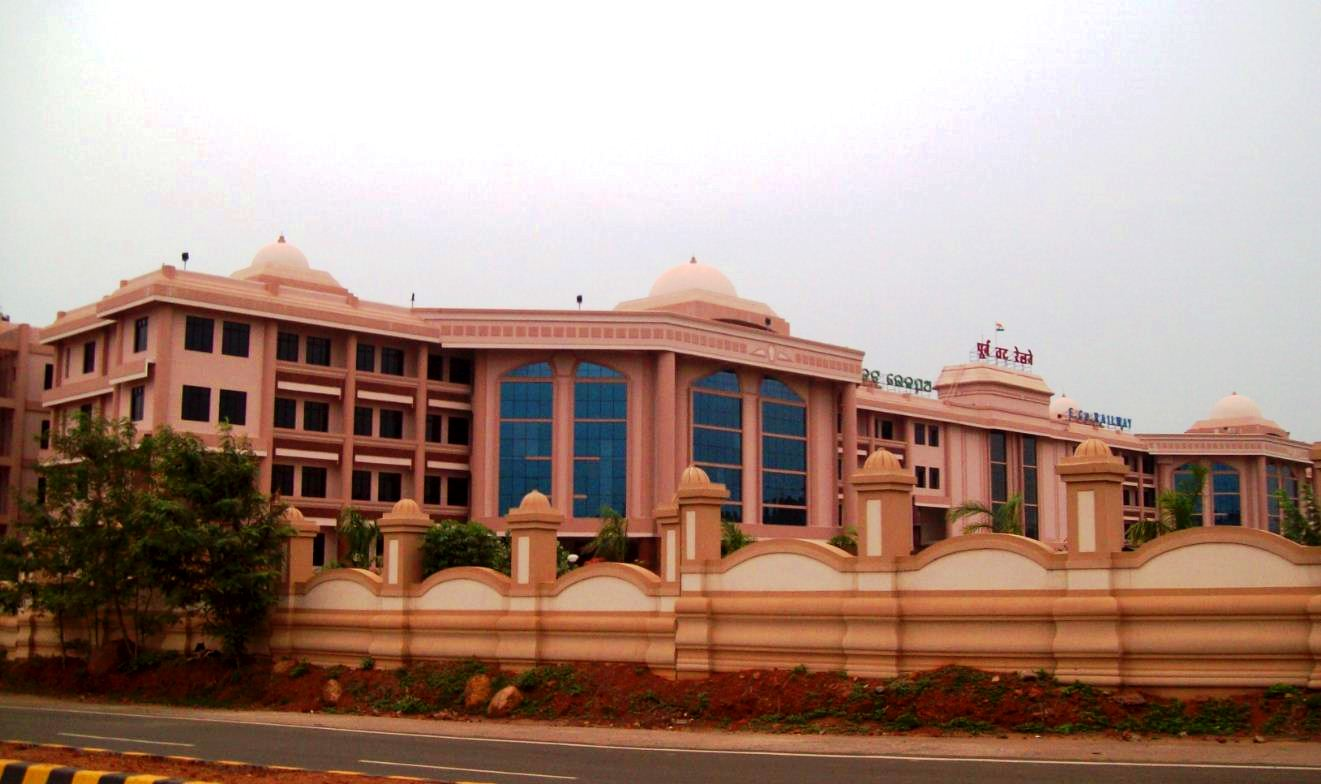 East Coast Railway Headquarters, Bhubaneswar, Orissa, India